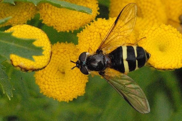 Picture taken in Commanster, Belgian High Ardennes . Species: female Dasysyrphus tricinctus